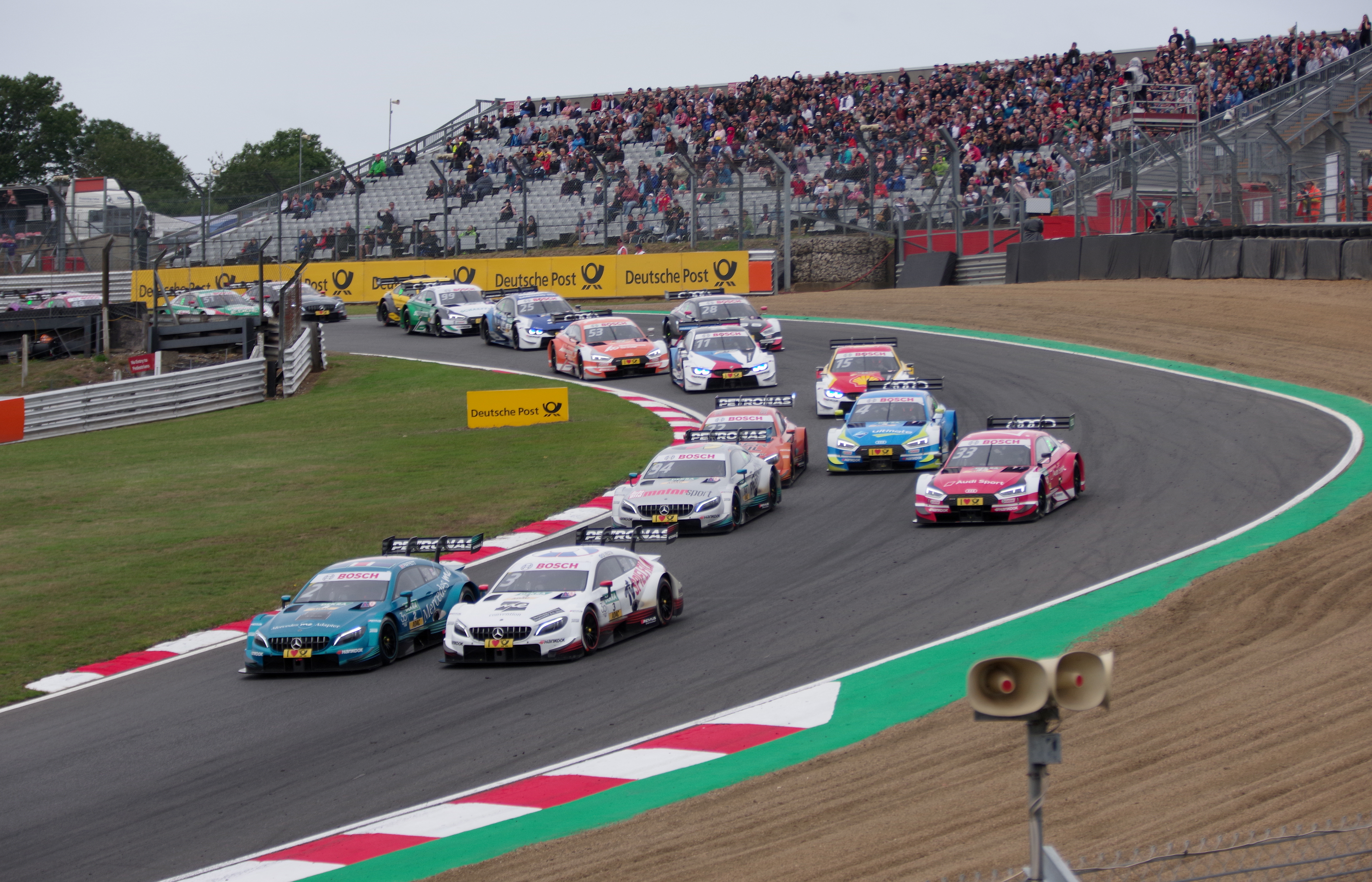 2018 Deutsche Tourenwagen Masters, Brands Hatch.